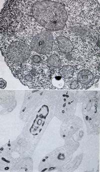 Picture shows two different views of the organelle glycosome in trypanosomatids with attached proteins.